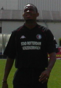 Kalou, cropped from the original photo